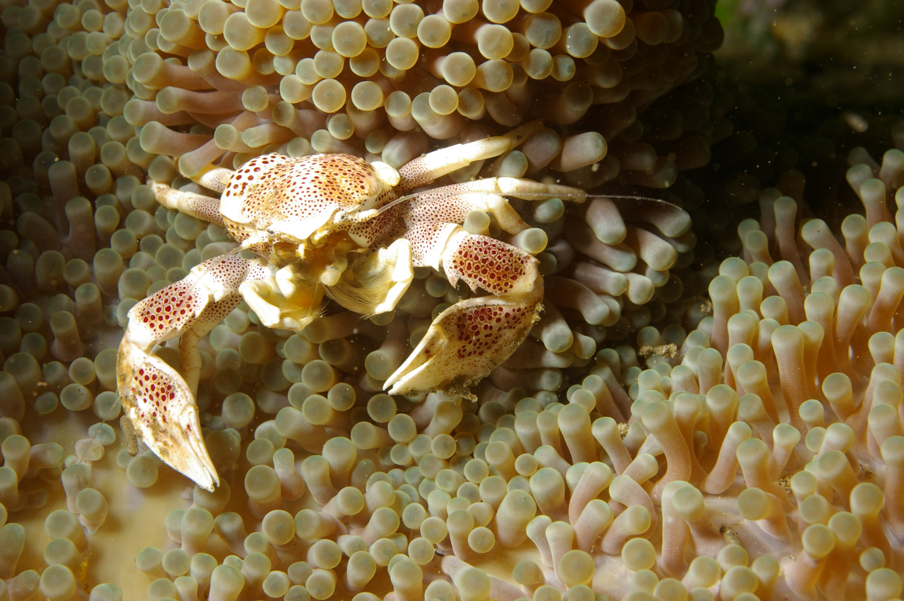 Photograph of a porcelain crab (Neopetrolisthes maculosus) living in a sea anomene, in Papua New Guinea. Taken by Jon Radoff in 2005 with a Pentax istDS with a 50mm macro lens.